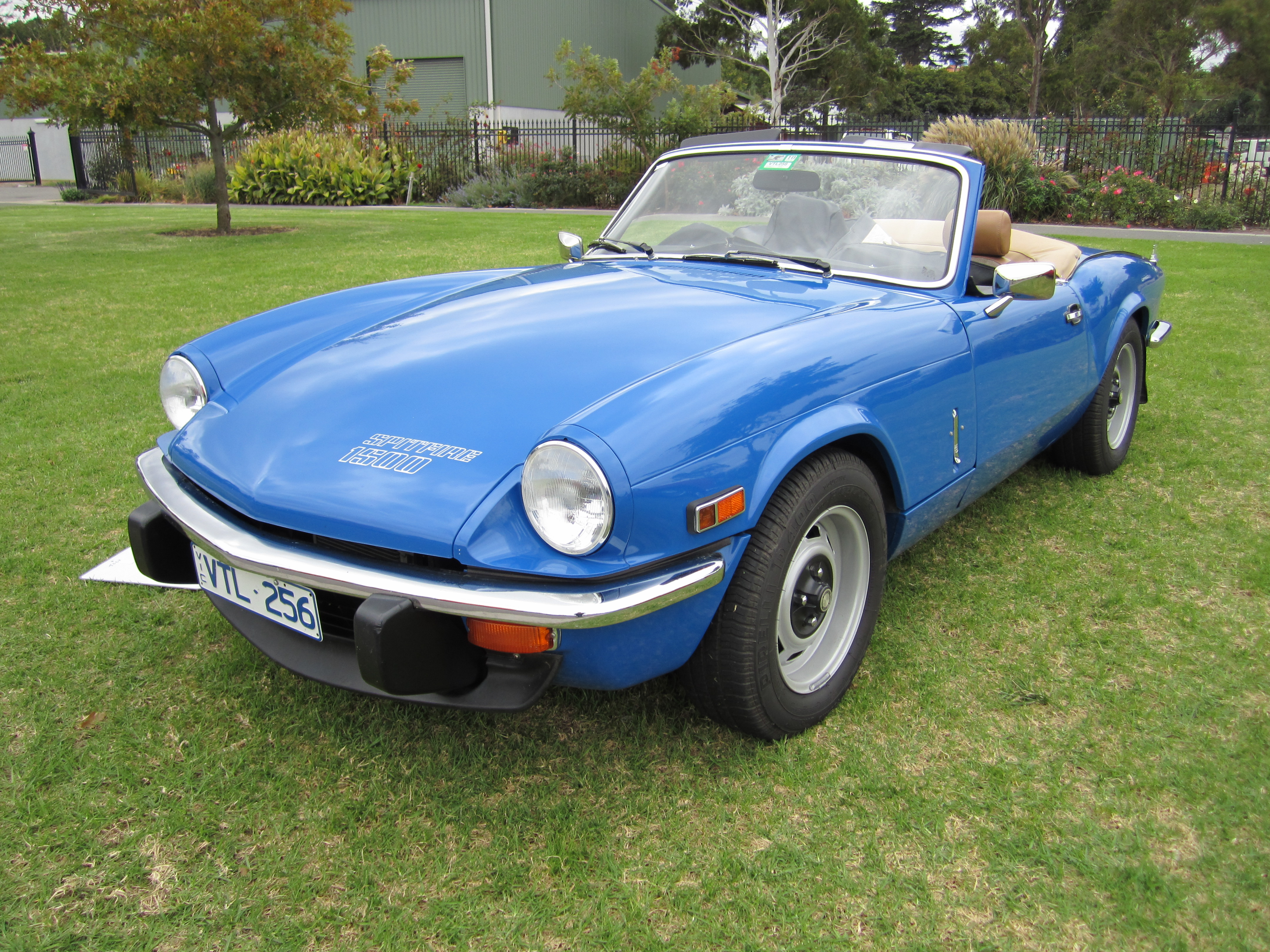 Built from 1974-81. Engine; 1493cc 4 cyl. Mk I; 1962-64 (1147cc) MkII; 1965-67 (1147cc) MkIII;1967-70 (1296cc) MkIV; 1970-74 (1296cc)